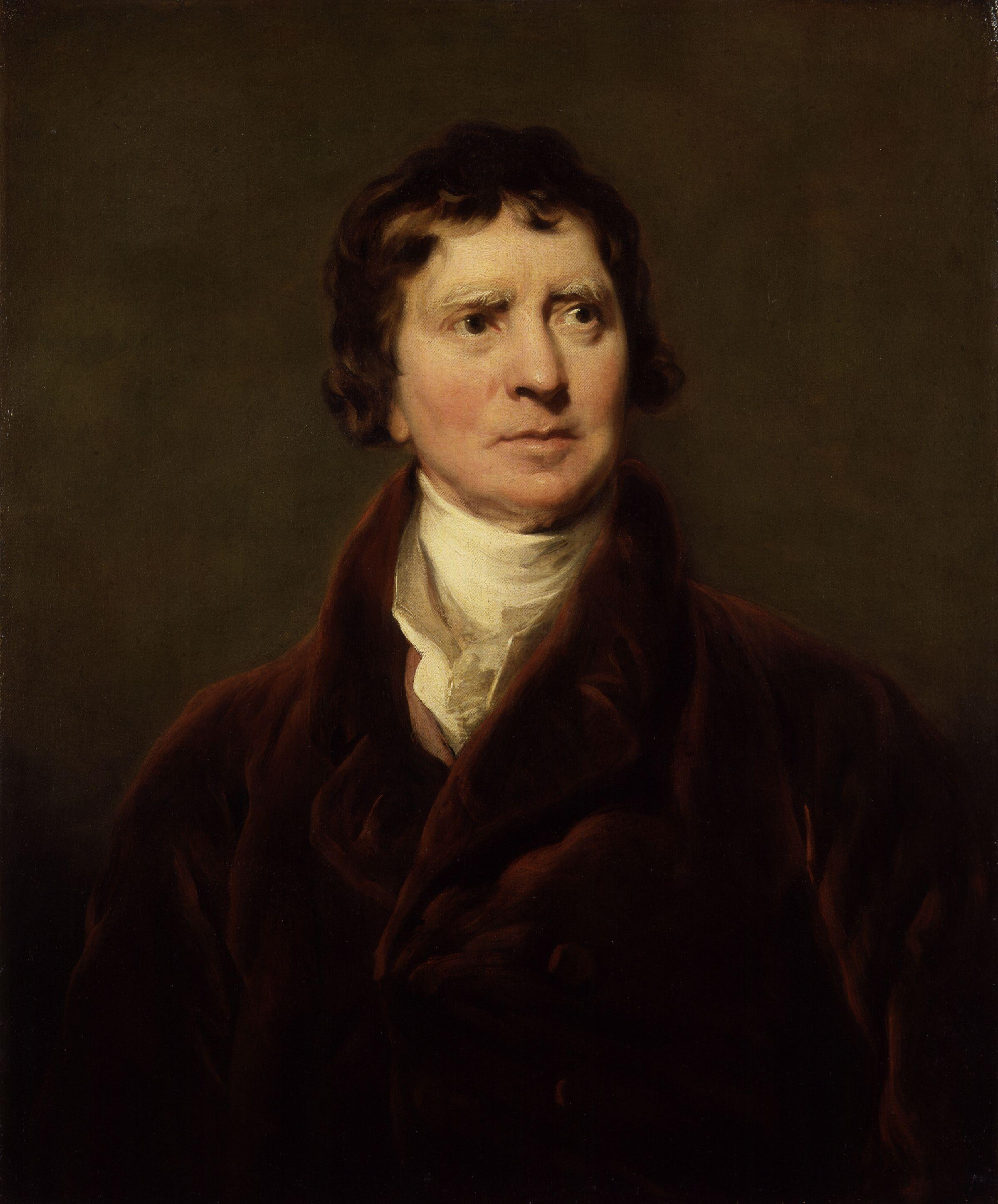 Henry Dundas, 1st Viscount Melville, by Sir Thomas Lawrence (died 1830). All images in this batch have been confirmed as author died before 1939 according to the official death date listed by the NPG.